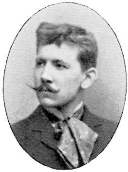 Image scanned from the book "Svenskt Porträttgalleri XX - Arkitekter, Bildhuggare, Målare m.fl. " ("Swedish Portrait Gallery XX - Architects, Sculptors, Painters, ") published 1901